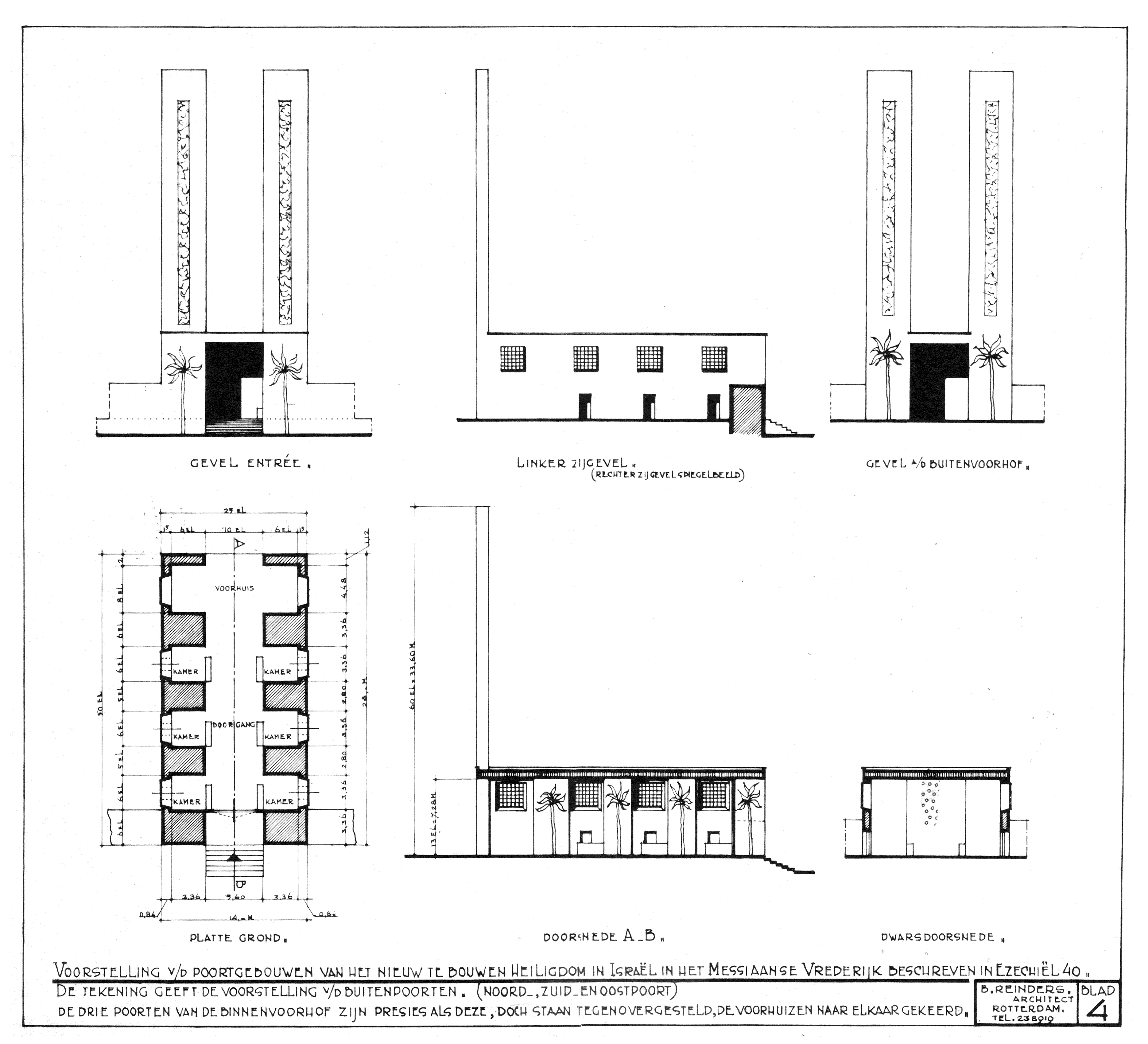 Gateways of Ezekiel's Visionary Temple, as described in the Book of Ezekiel, chapters 40-42, drawn as literally as possible by he dutch architect Bartelmeüs Reinders (1893-1979)